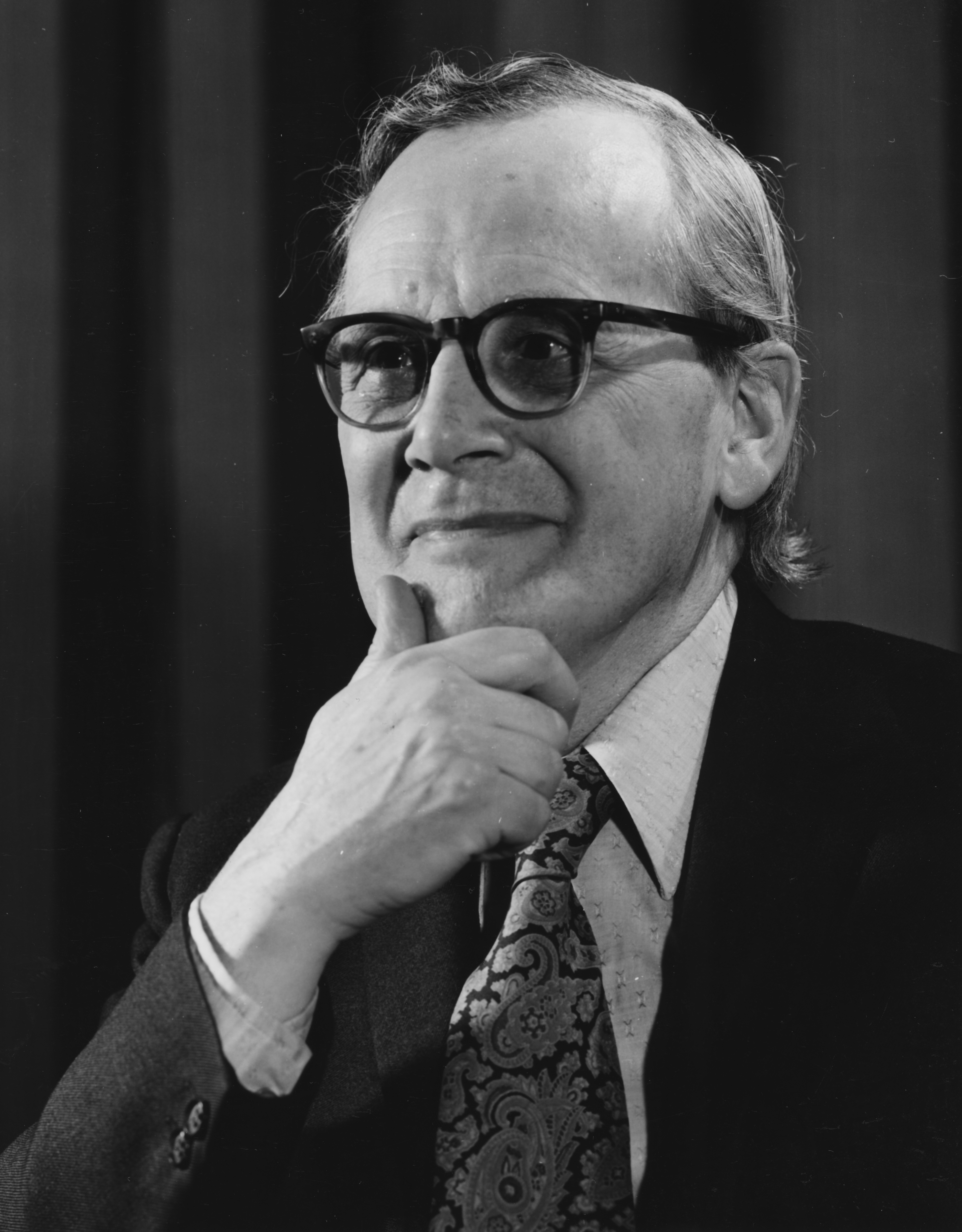 Professor of Statistics, 1944-1973 'Roy Allen retired after forty-five years on the staff of the School in 1973. Born in 1906, he came as an Assistant Lecturer direct from Cambridge after graduating with a first in mathematics. His job was to teach mathematics and statistics under Bowley but he got interested in economics and quickly achieved international fame for his collaborative work with Hicks on the theory of value...Appointed to the Chair of Statistics in 1944, Sir Roy has always been prepared to do more than his fair share of the less glamorous and more arduous tasks of academic administration. He has served as an Academic Governor and a member of the University Senate. His unflappable temperament, practical wisdom and administrative ingenuity have helped to resolve many a difficult problem in the running of the School...Always active in the interests of the statistical profession, he has been president of the Royal Statistical Society and the Econometric Society and has held various offices in the Institute of Statisticians, the International Statistical Institute and the Royal Economic Society. He was made a fellow of the British Academy in 1952, a C.B.E in 1954 and was knighted in 1966. His main outside interest has been public affairs and he has usually been the first person the Government turned to when it needed advice from the outside on statistical matters..."LSE Magazine, November 1943 No:46, p.9 IMAGELIBRARY/99 Persistent URL